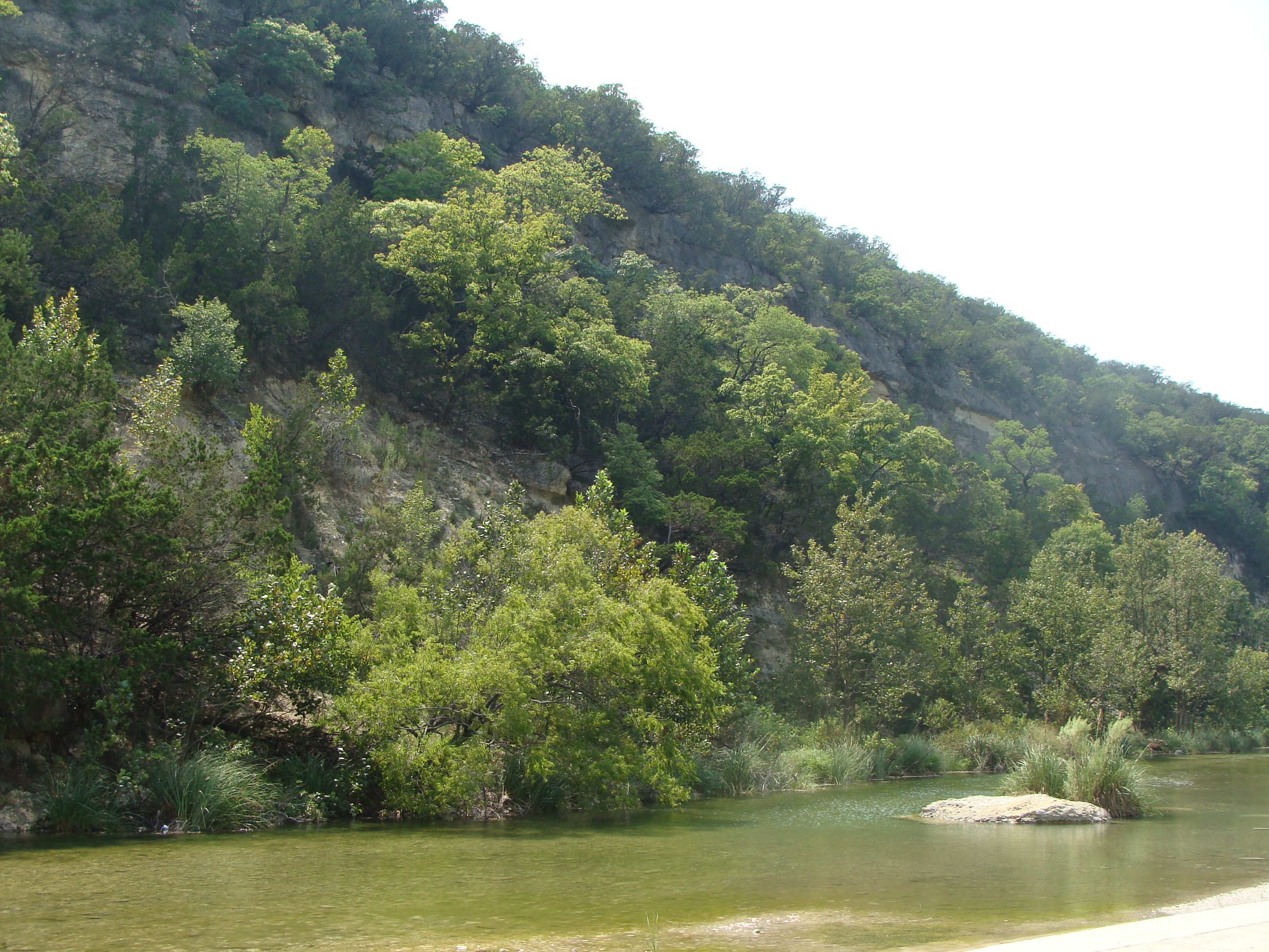 Lost Maple State Natural Area, Texas